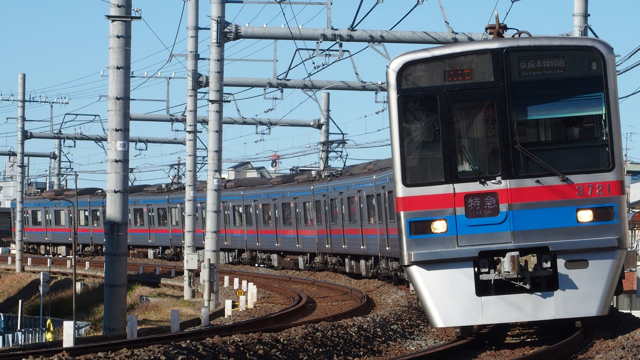 Keisei Electric Railway 3700 series EMU set 3728